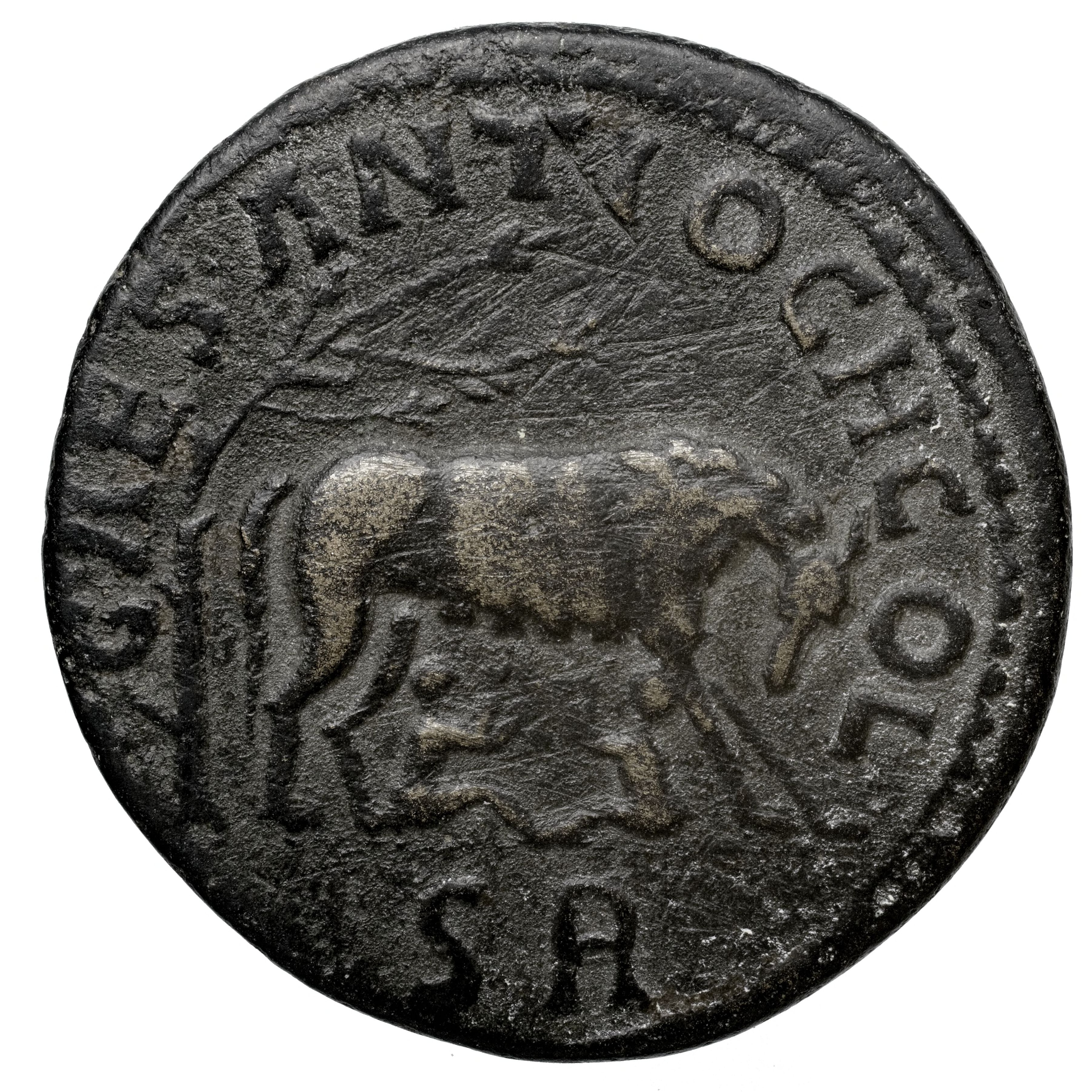 Bronze coin, Antioche, Pisidie, Gordien III (Roman emperor, 225?-244), 24.41 g, reverse.